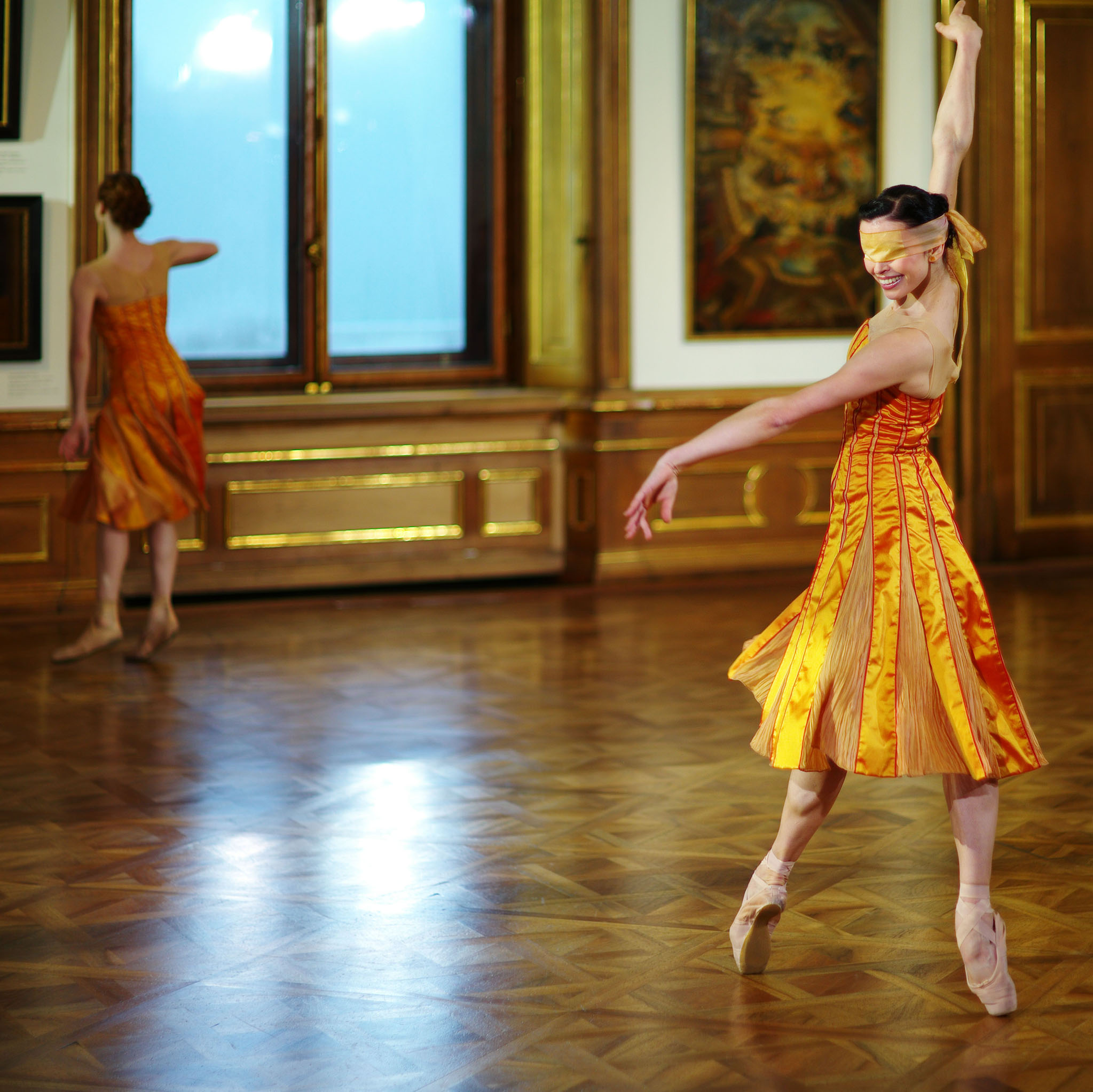 Vienna state ballet dancer Irina Tsymbal perform during the New Year´s Concert in the Belvedere on January 1, 2012 in Vienna. f1.4